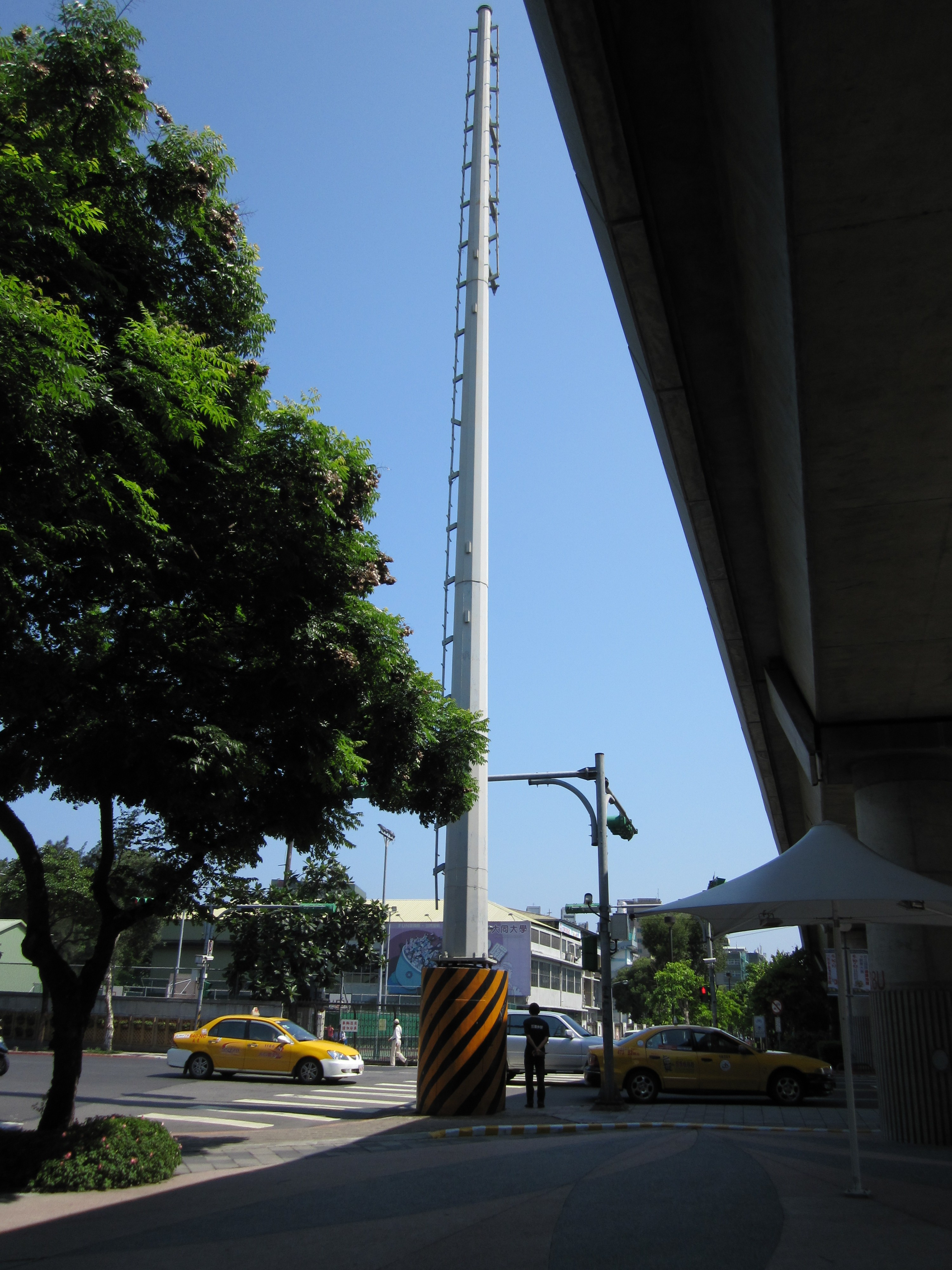 High-voltage tower on Minzu West Road and Yumen Street intersection, Zhongshan District, Taipei City.中文（台灣）: 臺北市中山區臺北捷運圓山站與大同大學之間，民族西路與玉門街口的高壓電塔（已移除）。